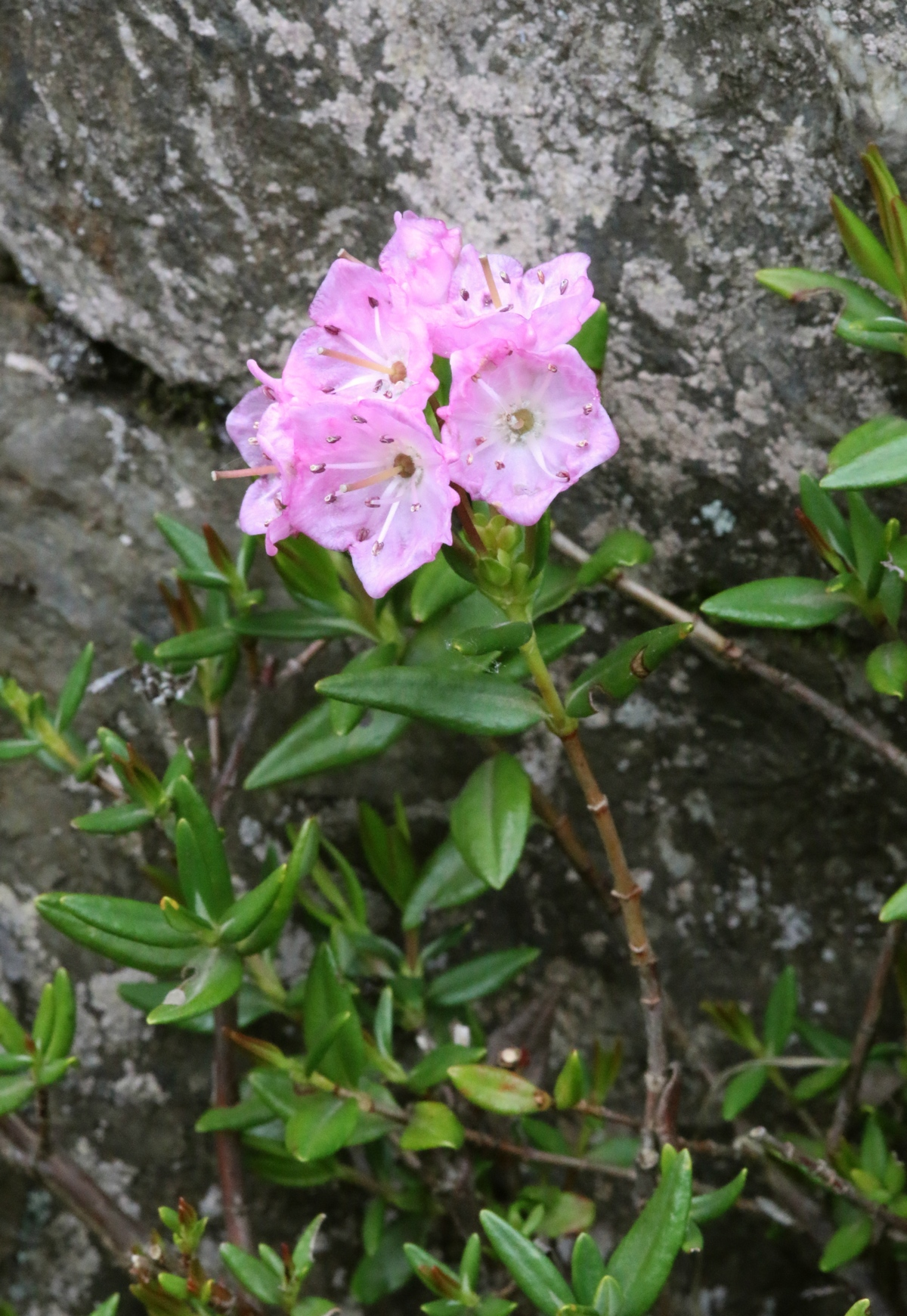 Kalmiopsis leachiana in Grulich's Rockgarden, Sedlonov, Czech Republic